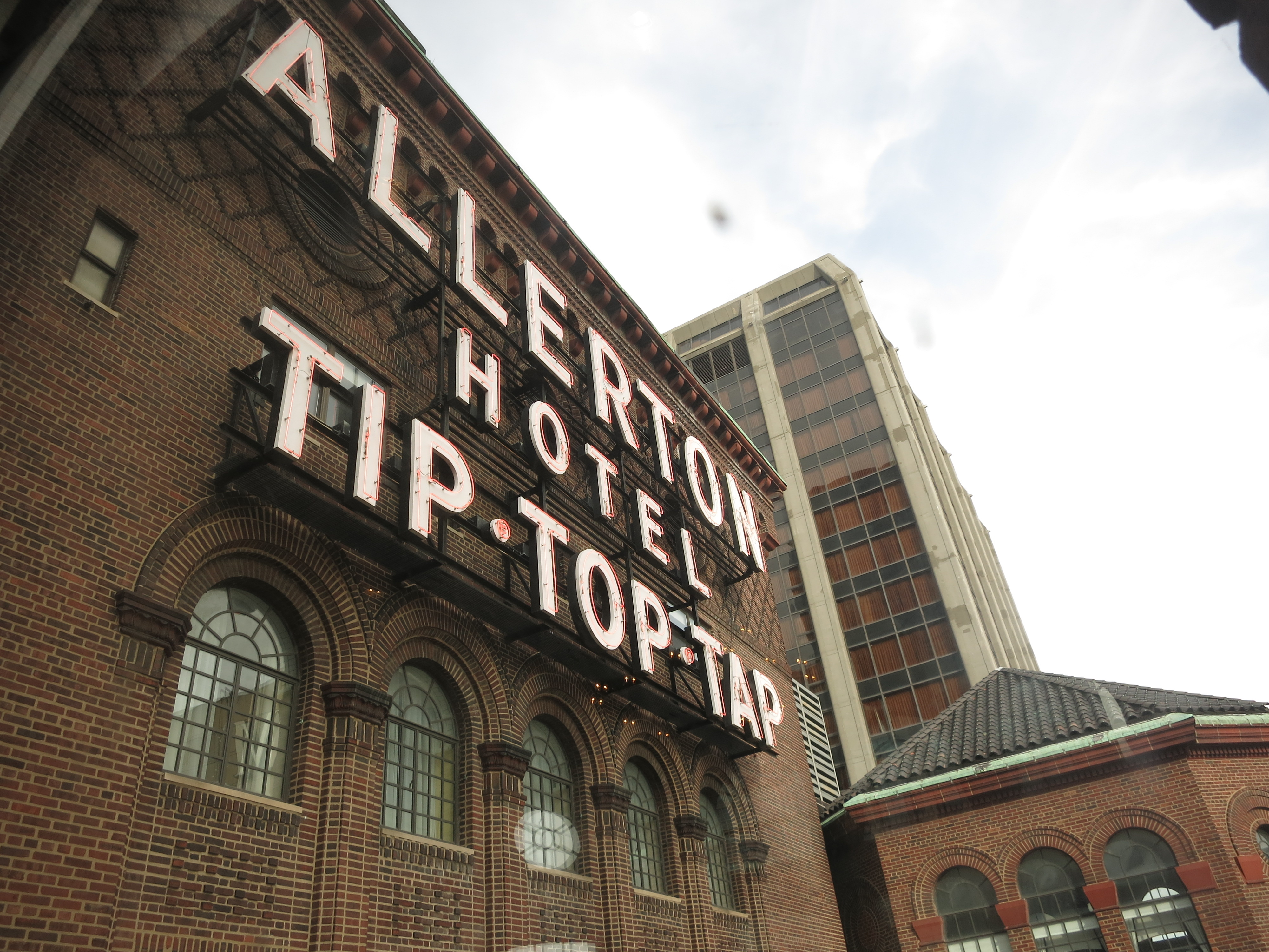 Open House Chicago